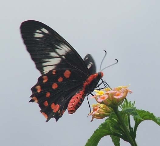 Crimson Rose, Pachliopta hector seen feeding from Lantana flowers. Photographed on 26 Jun 2005 by Rahul Natu who has donated it for use on Wikipedia. This image has been uploaded with permission of Rahul Natu by Nature Loader.